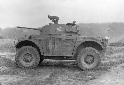 Tanks and Afvs of the British Army 1939-45 Coventry armoured car Mk I